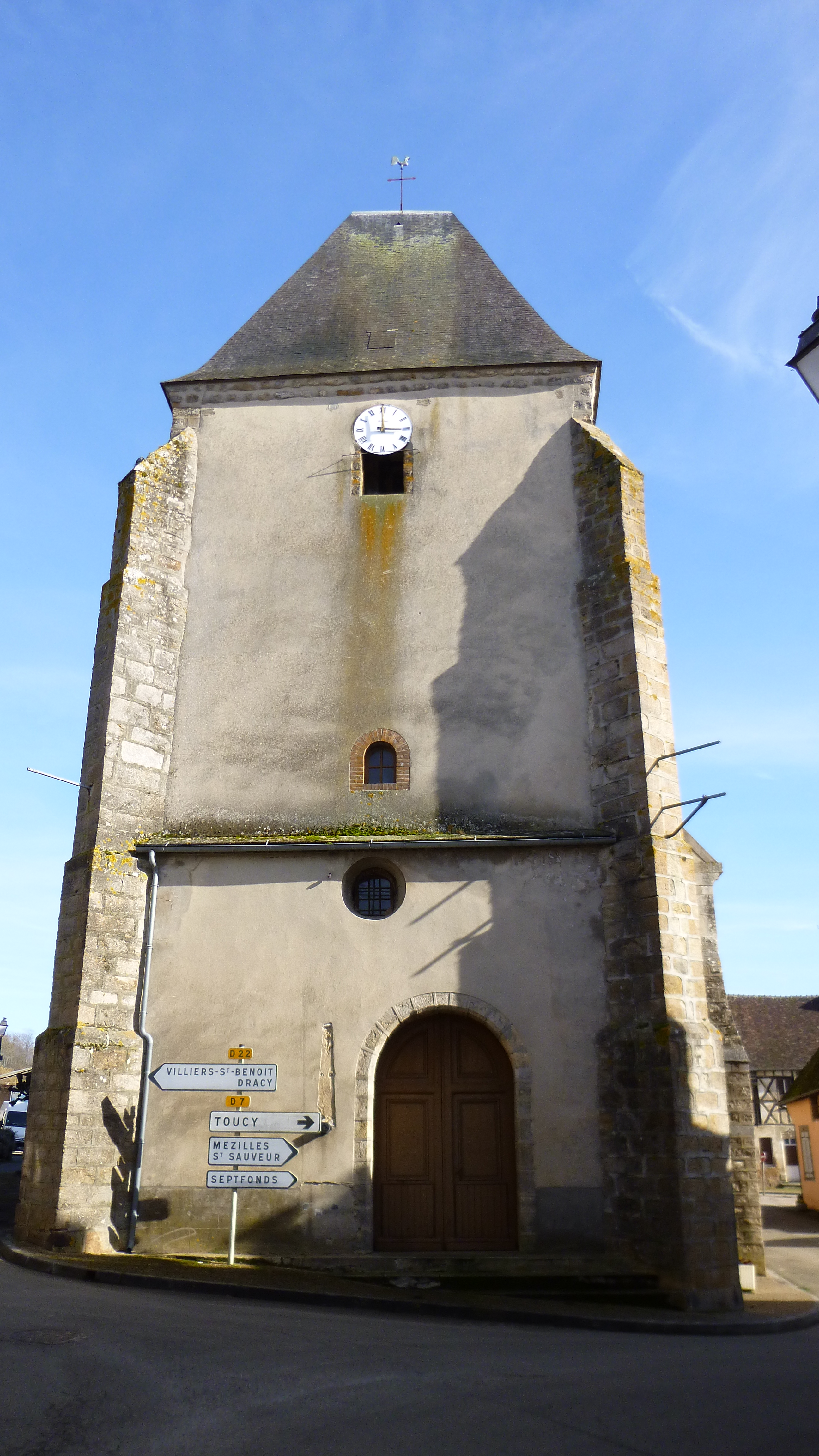 Tannerre-en-Puisaye, Yonne, Burgundy, France. St-Martin church, seen from the west and from Rue Carreau. The church tower is from the 16th century. Of the XIIth century church, only remains the walls of the nave, some small centered windows, and the inner portal. The Rue du Pont is here in front of the church, the Grande Rue is behind it.